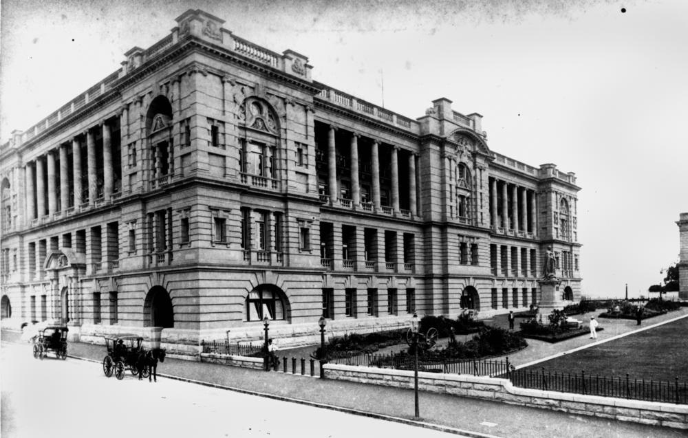 Executive Building, Brisbane, ca. 1907. The Executive Building was erected by the Queensland Government during the years 1901-05 overlooking what is now Queen's Park. During construction it was known as the New Lands & Survey Offices but towards its completion became known as the Executive Building. The second floor housed the Premier's offices, his Under Secretary, officials of the Public Service Board and the Cabinet Room. On the third floor a large room facing the whole length of George Street was allotted to the Trustees of the Qld. National Art Gallery for the collection of works of art. The building, which later became the Land Administration Building, was entirely faced with stone. Granite was used for the base, course and plinth, with freestone above. It was erected on the site of Brisbane's first electric telegraph office and the former convict settlement's parsonage, later the commissariat officers' quarters. The gardens established adjacent to the building were initially known as the Executive Gardens. On 23 June 1906 a bronze statue of Queen Victoria was unveiled by the Governor. (Infromation taken from: Janet Hogan, Living history of Brisbane, 1982).